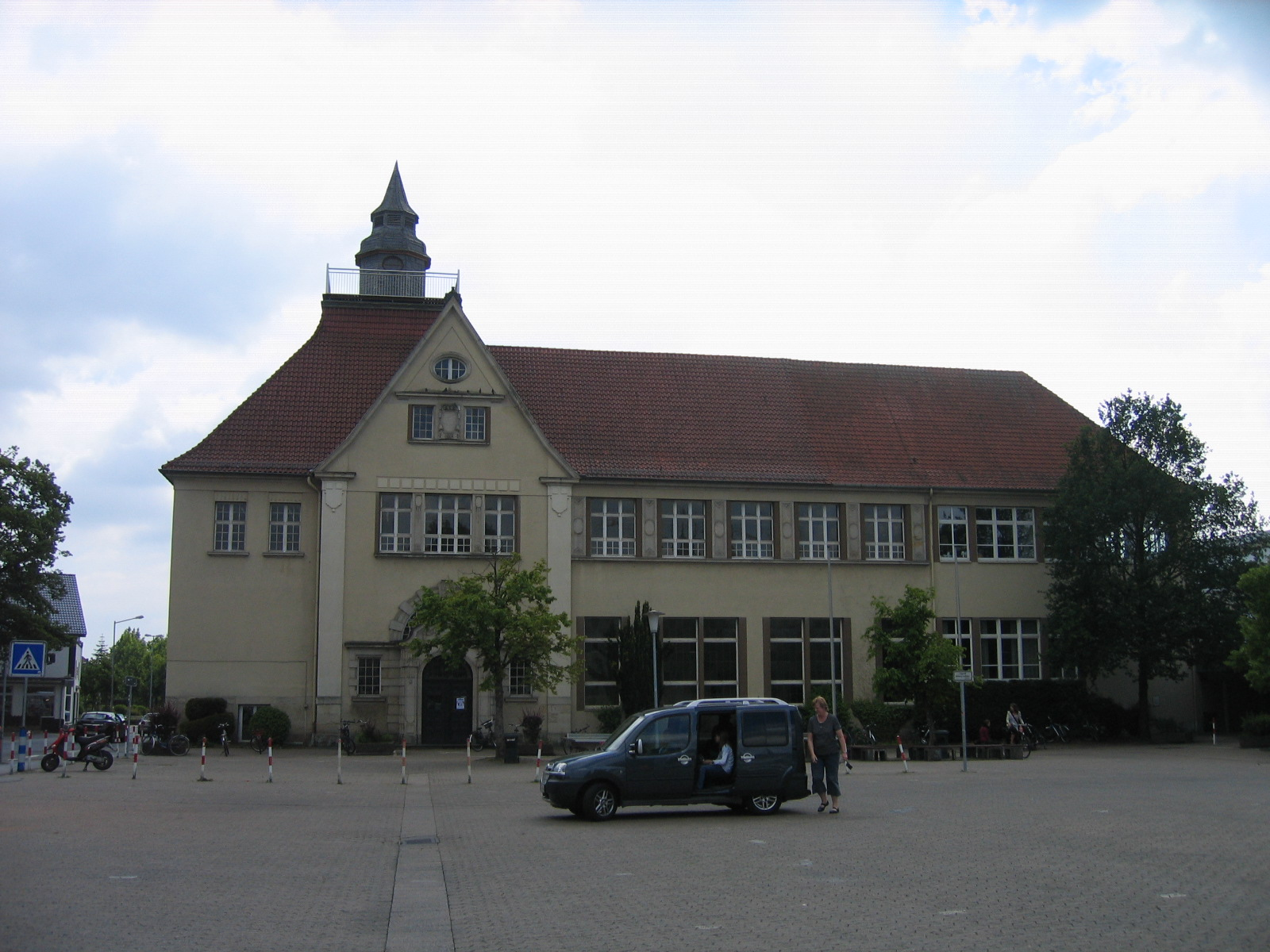 in Bünde, District of Herford, North Rhine-Westphalia, Germany.